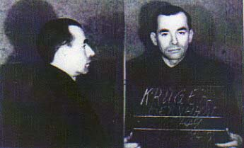 SS Major Bernhard Kruger in Postwar British Captivity